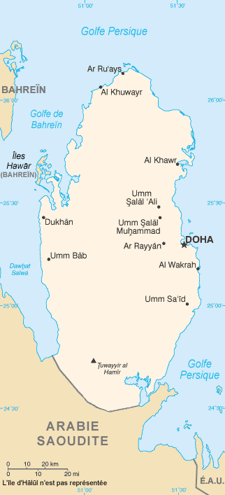 Map in French of Qatar